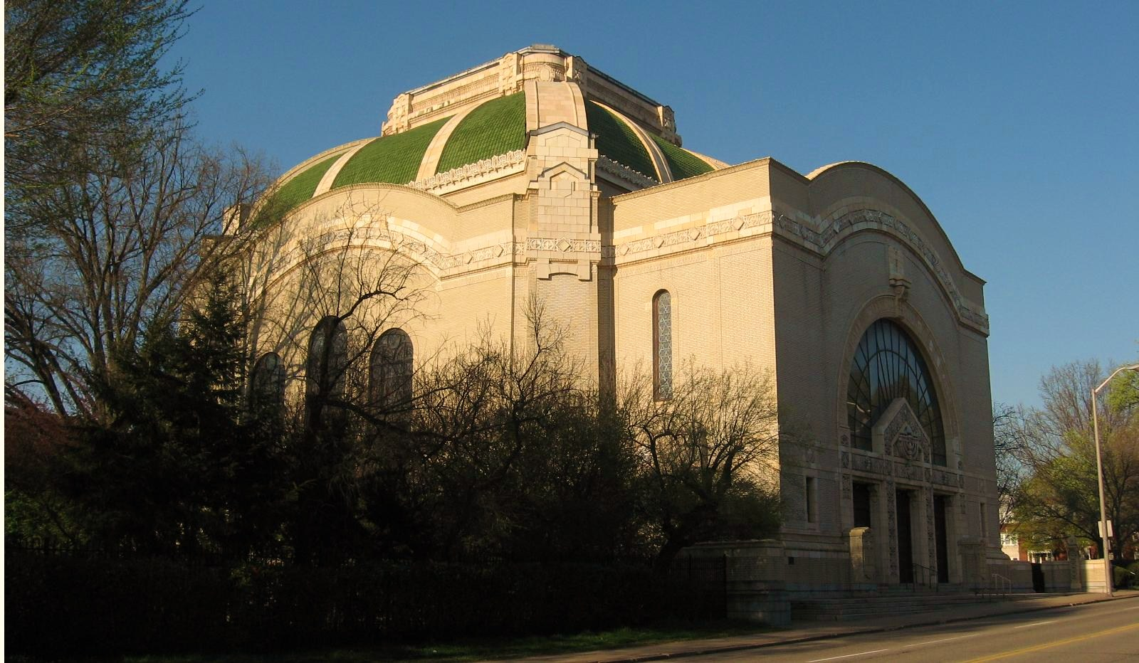 The Rodef Shalom Temple in Pittsburgh 40°26′51.4″N 79°56′36.2″W / 40.447611°N 79.943389°W